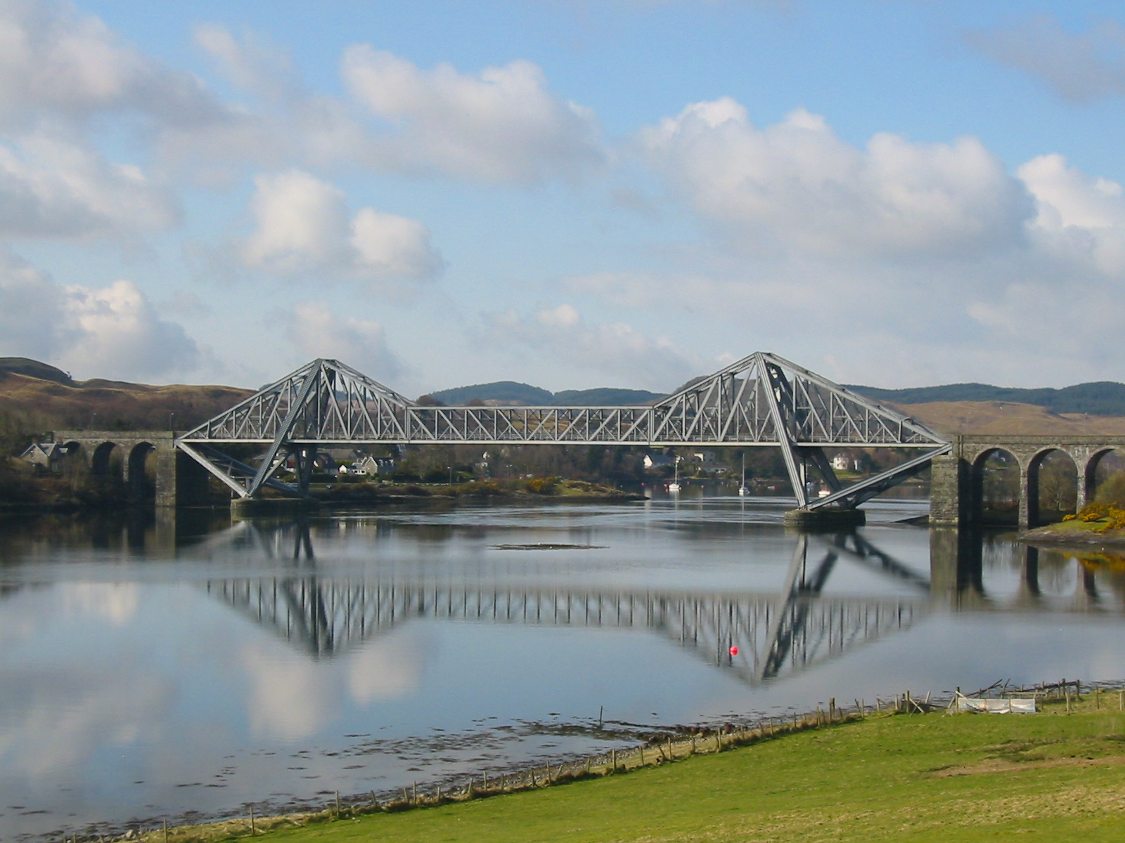 The Connel Bridge. Picture taken April 2007 by myself. Photo not copyrighted.